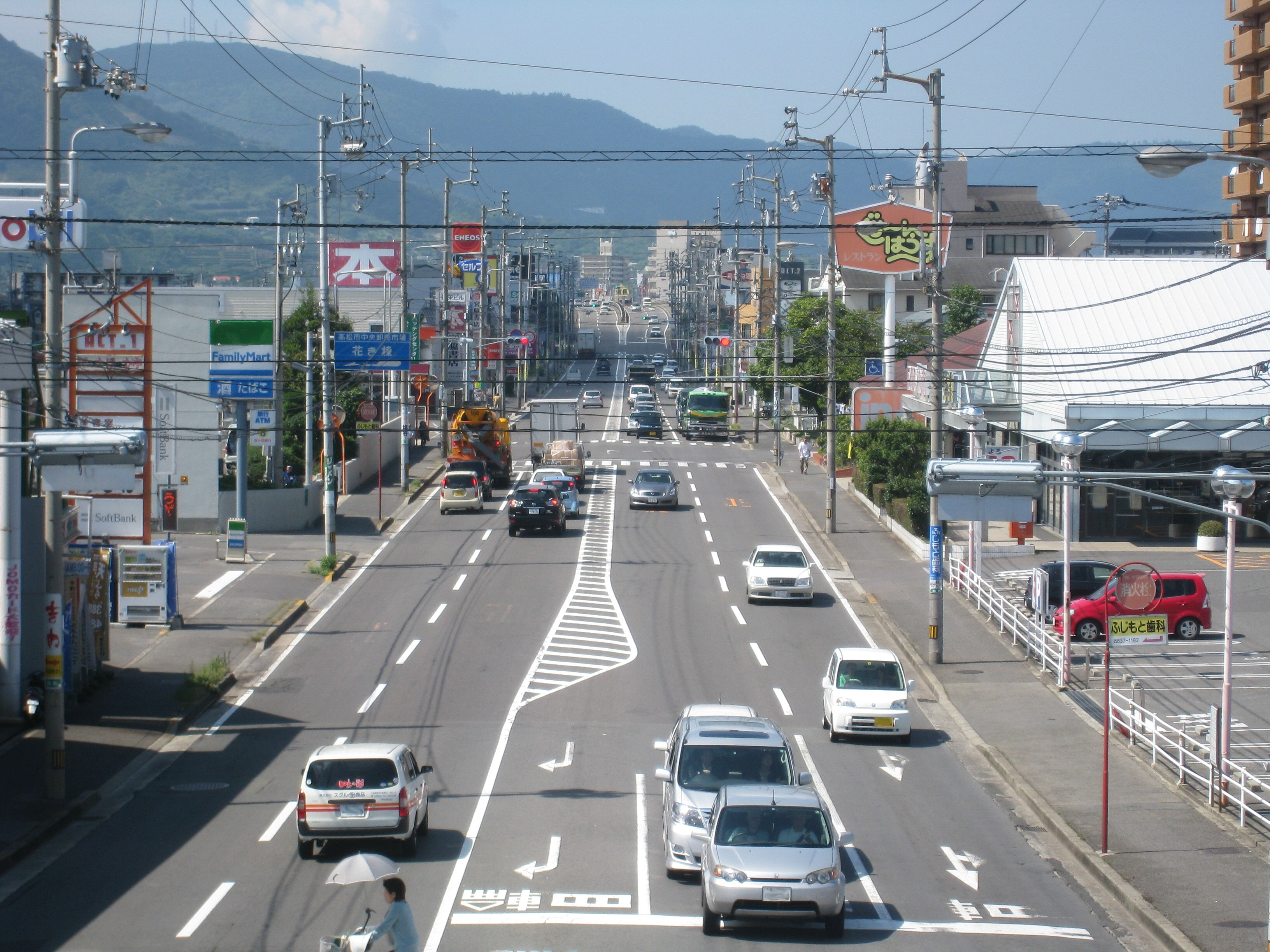 Sanuki-hamakaido in Setouchi-cho